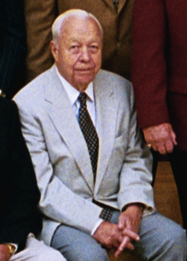 Lee MacPhail at the White House for a Luncheon with Members of the Baseball Hall of Fame